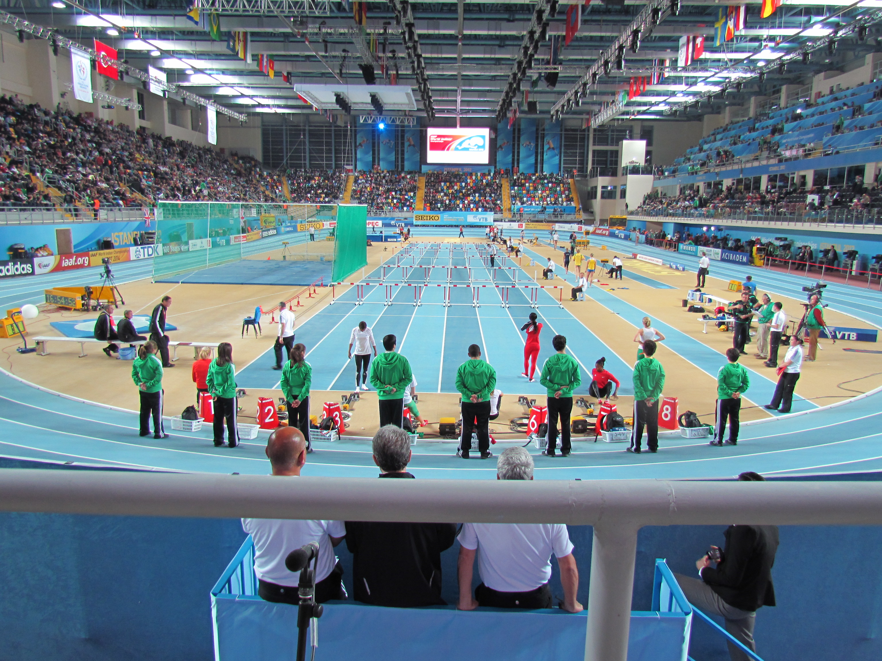 The 2012 IAAF World Indoor Championships in Athletics was the 14th edition of the global-level indoor track and field competition and was held between March 9–11, 2012 at the Ataköy Athletics Arena in Istanbul, Turkey.